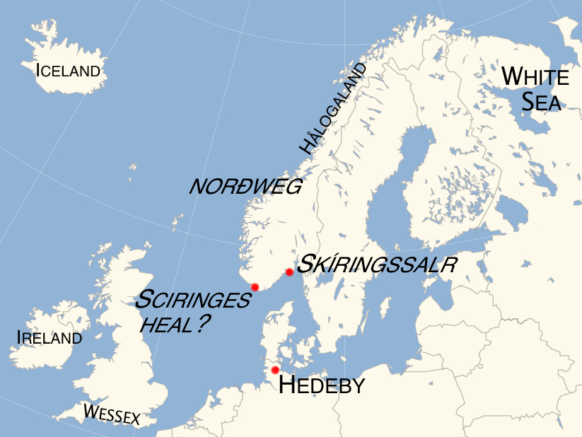 Map showing principal places mentioned in Ohthere of Hålogaland's account of his travels, as given to King Alfred of Wessex around 890 AD: note that "White Sea" indicates the general location of the land of the Beormas, which may have lain on either the eastern or the western side of the White Sea; that Skíringssalr, a historical location near Larvik, has commonly been assumed to be the location of the Sciringes heal mentioned by Ohthere, but that this is disputed in favour of a location slightly west of Lindesnes, at the southern tip of modern Norway; that opinion is divided over whether Ohthere's account originally referred to Ireland or Iceland; and that political boundaries shown on this map are modern, having no bearing on the status quo at the time of Ohthere's travels.